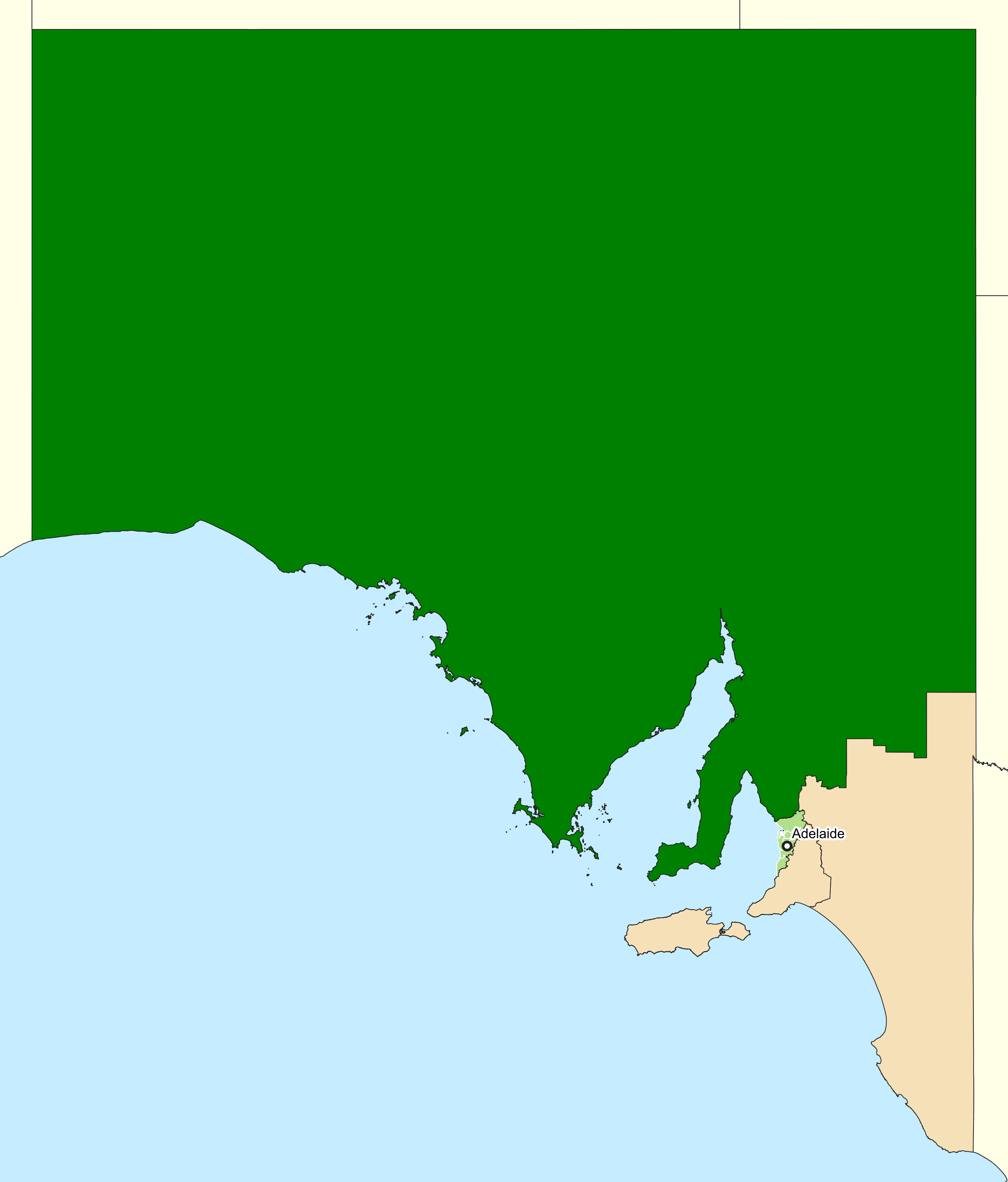 Location of the Australian federal electoral division of Grey (dark green) in South Australia as of the 2019 Australian federal election. Incorporates or developed using Administrative Boundaries ©PSMA Australia Limited licensed by the Commonwealth of Australia under Creative Commons Attribution 4.0 International licence (CC BY 4.0).